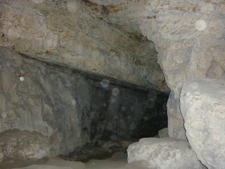 Inside of Höhlturm cave in lower Austria